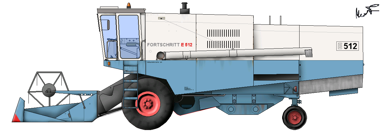 East German E 512 combine harvester, produced by the “Fortschritt” state combine.